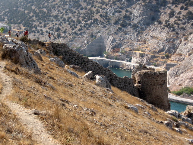 Cembalo fortress ruins in Balaclava